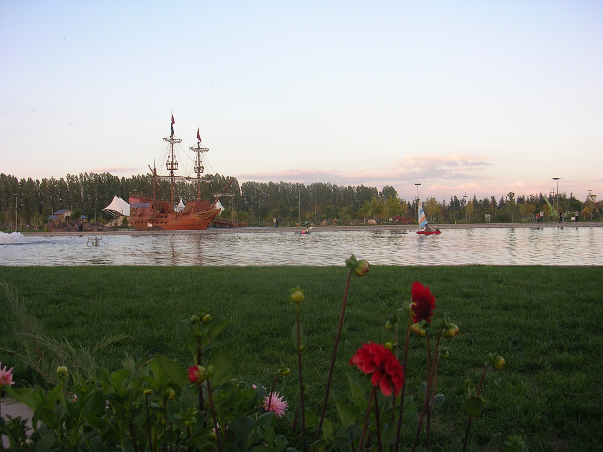 Science and Art and Cultural Park ('), Eskişehir